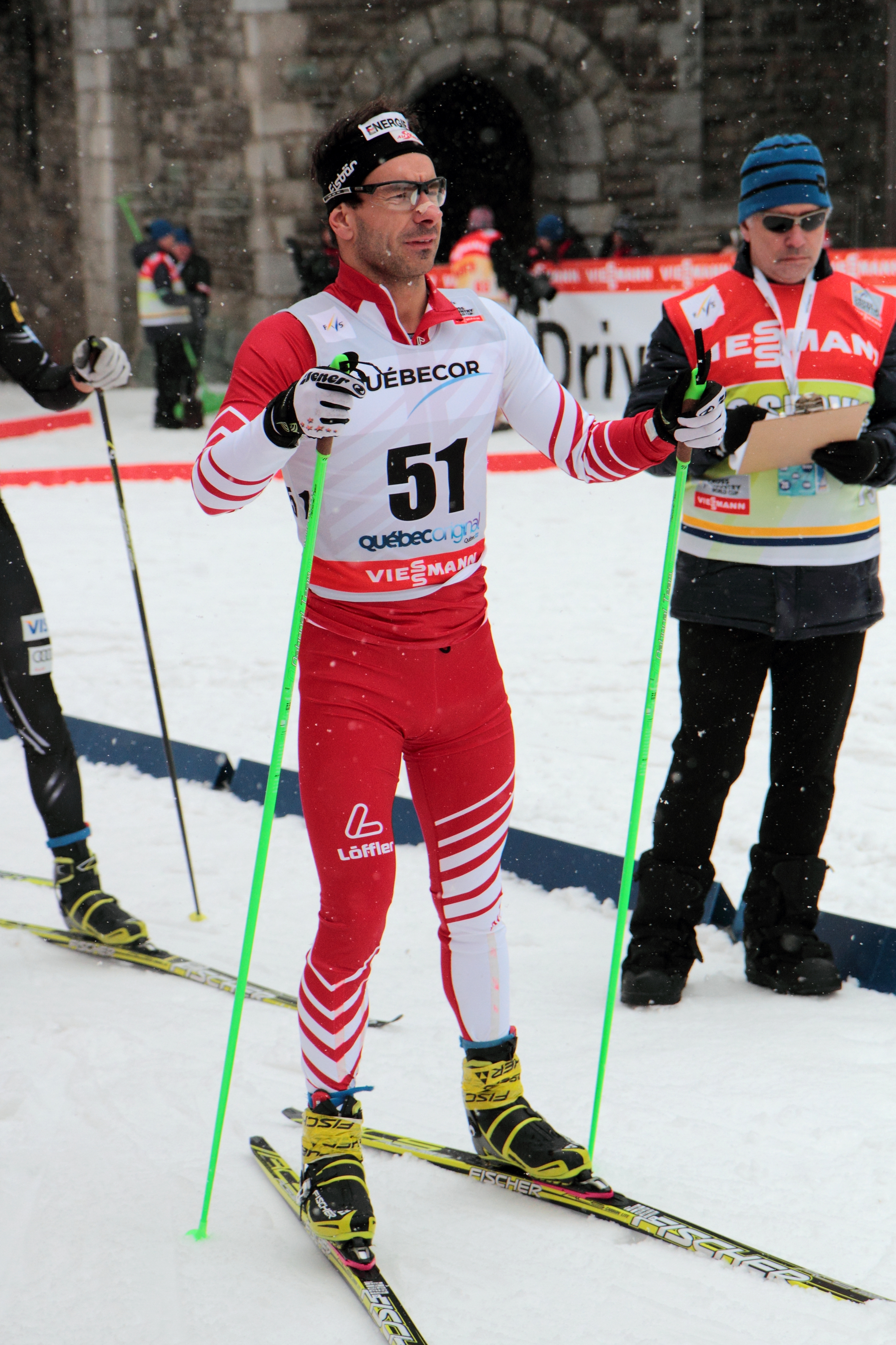 Martin Stockinger, FIS Cross-Country World Cup 2012, Quebec, Canada.